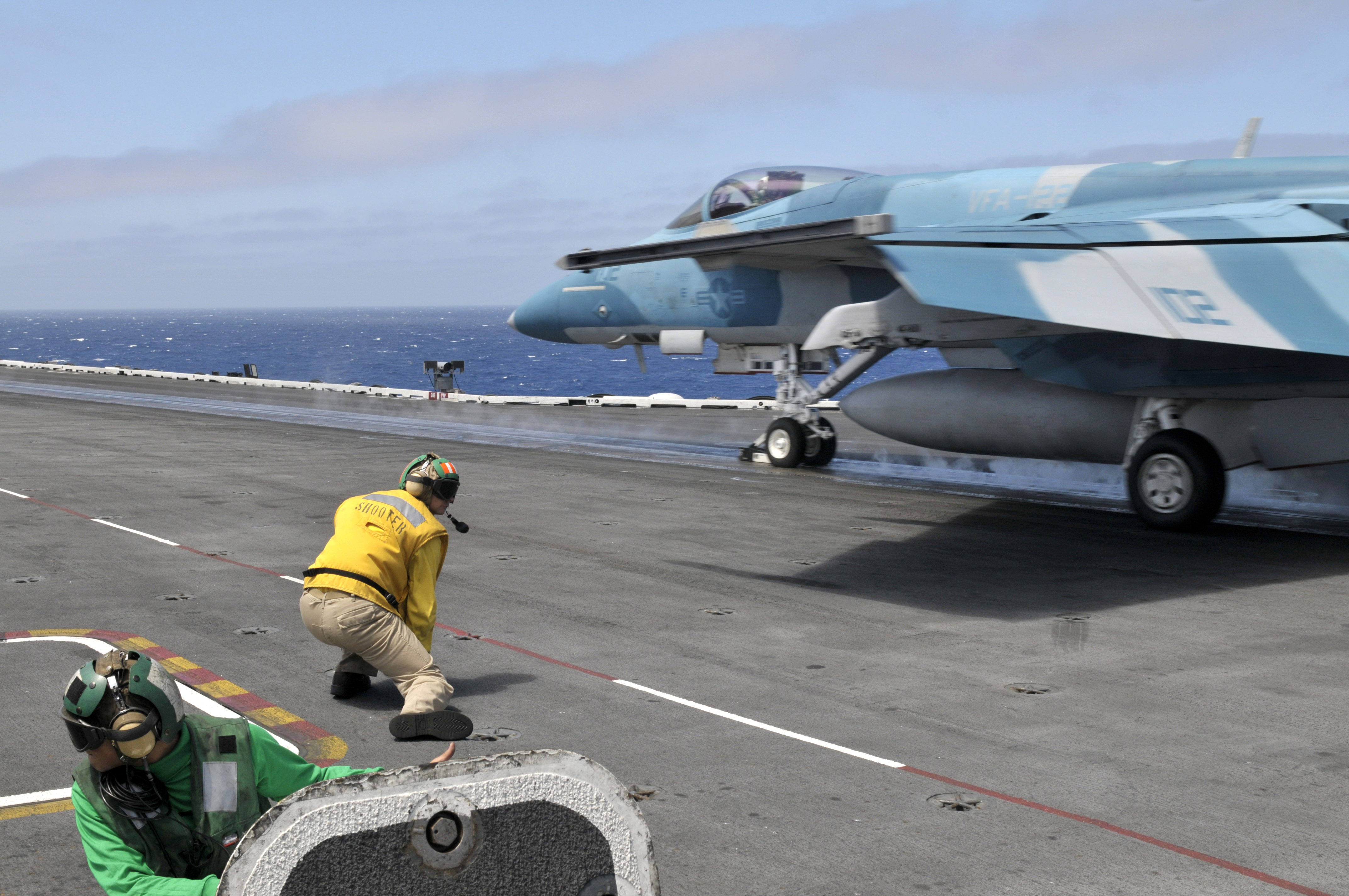 PACIFIC OCEAN (Aug. 3, 2011) A shooter signals the launch of an F/A-18E Super Hornet assigned to the Flying Eagles of Strike Fighter Squadron (VFA) 122 aboard the aircraft carrier USS Abraham Lincoln (CVN-72). Abraham Lincoln is underway off the coast of Southern California conducting carrier flight qualifications. (U.S. Navy photo by Mass Communication Specialist Seaman Apprentice Mason Campbell/Released)